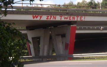 viaduct boven A1